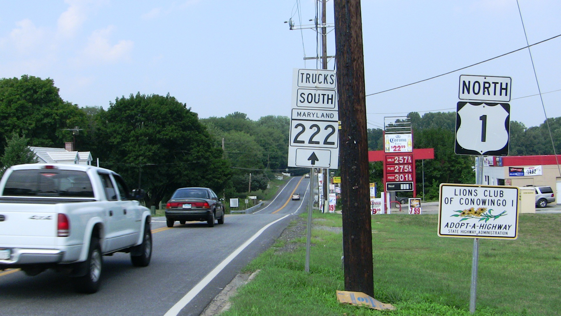 This shows the signage on US-1 just north of the intersection with the southern terminus of US-222. Most motorists traveling south on US-222 to I-95 use either MD-222 or MD-161 to travel south to the interstate. However, both of these routes are narrow and winding, requiring an alternate route for trucks. MD-222 Truck and US-1 share a wrong way concurrency as the Truck route travels to MD-276 en route to I-95.